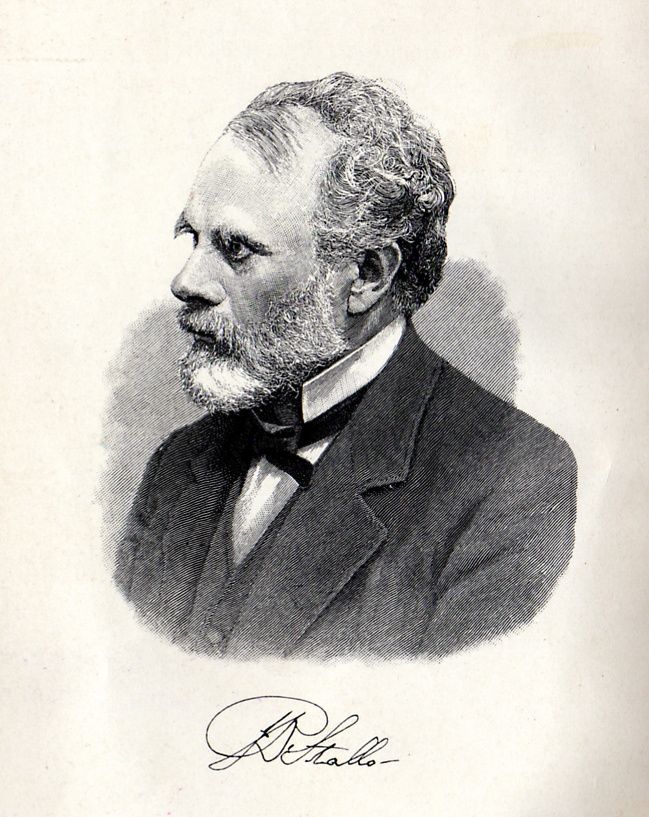 Frontispiece of German edition of John Bernhard Stallo's "Concepts of Modern Physics", Die Begriffe und Theorien der modernen Physik. Nach der 3. Aufl. des englischen Originals übers. und hrsg. von Hans Kleinpeter. Mit einem Vorwort von Ernst Mach. Leipzig, Johann Ambrosius. Barth 1901 Front. mit Porträt.